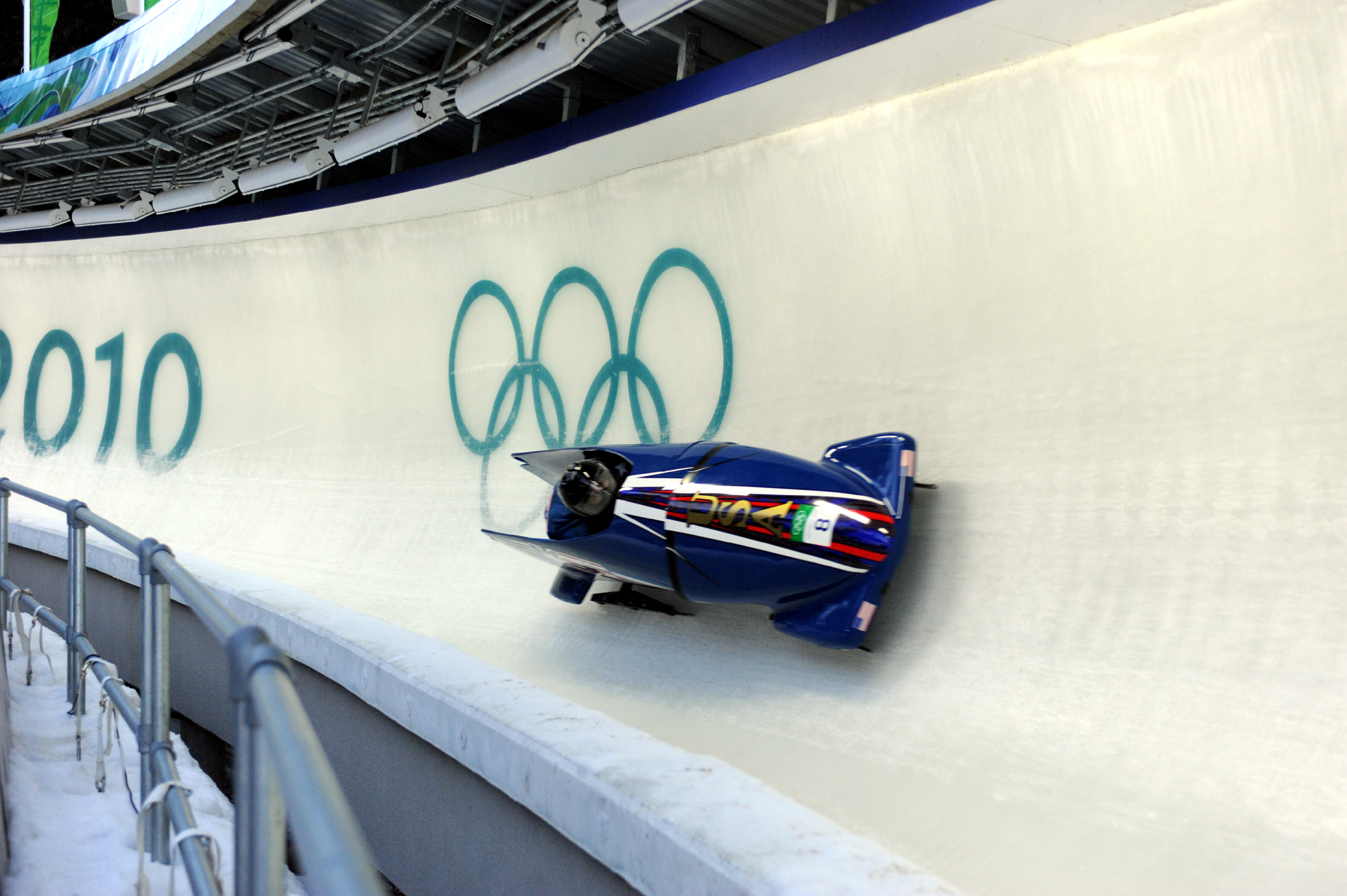 U.S. Army World Class Athlete Program Sgt. John Napier drives to the 12th fastest time of 52.28 seconds with Steve Langton aboard in the first heat of the Olympic two-man bobsled competition Saturday at Whistler Sliding Center in British Columbia during the 2010 Winter Olympics. After two of four heats, the USA II sled was in 11th place with a cumulative time of 1:44.73.